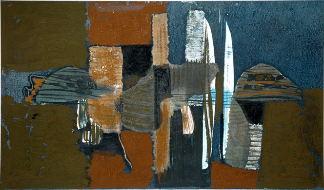 Tempera on paper, author: Jan Hladík